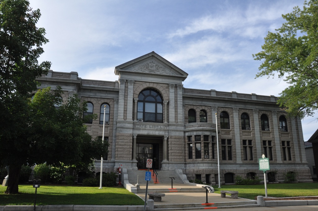 New Hampshire State Library